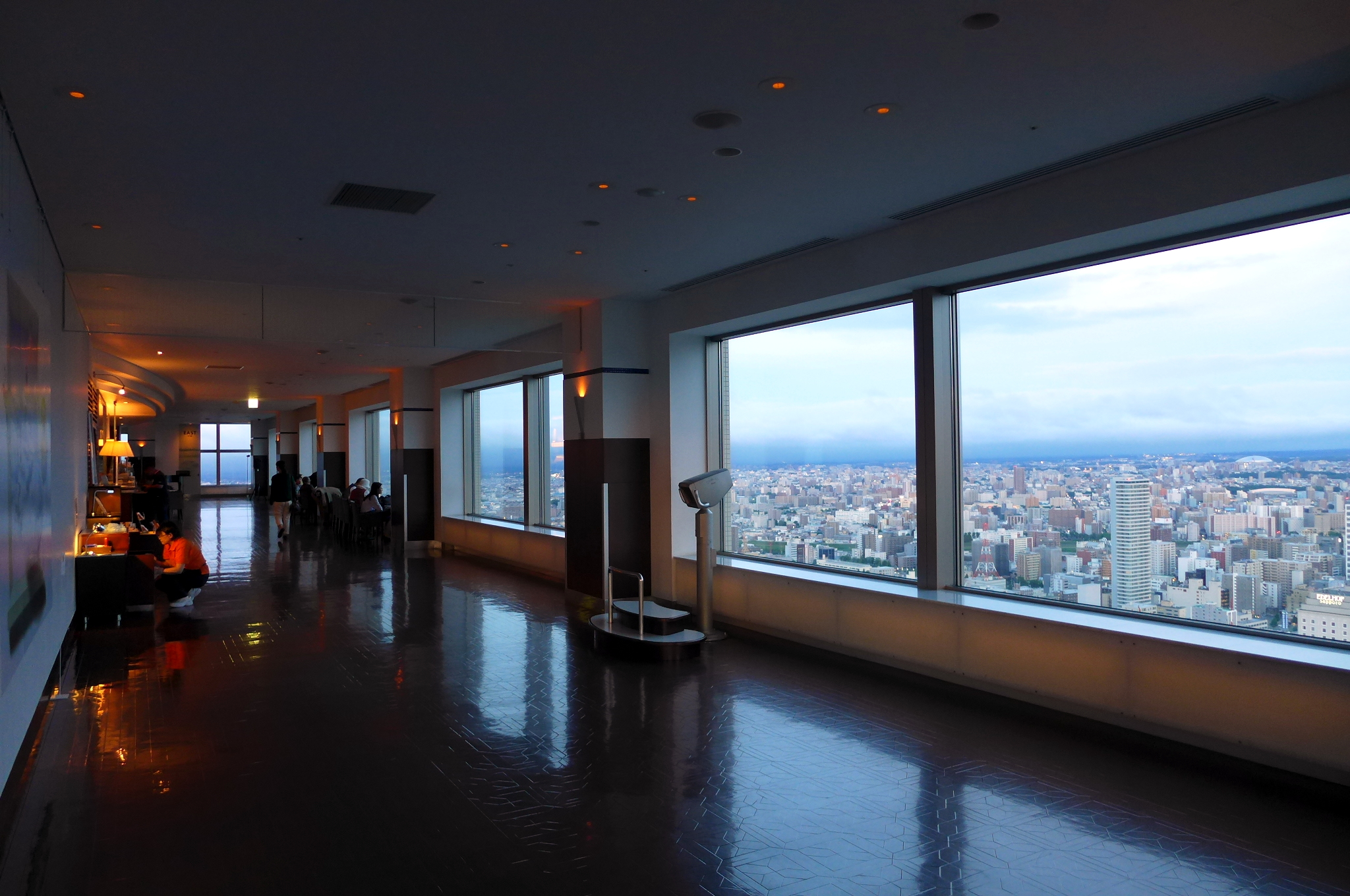 JR Tower Observatory T38